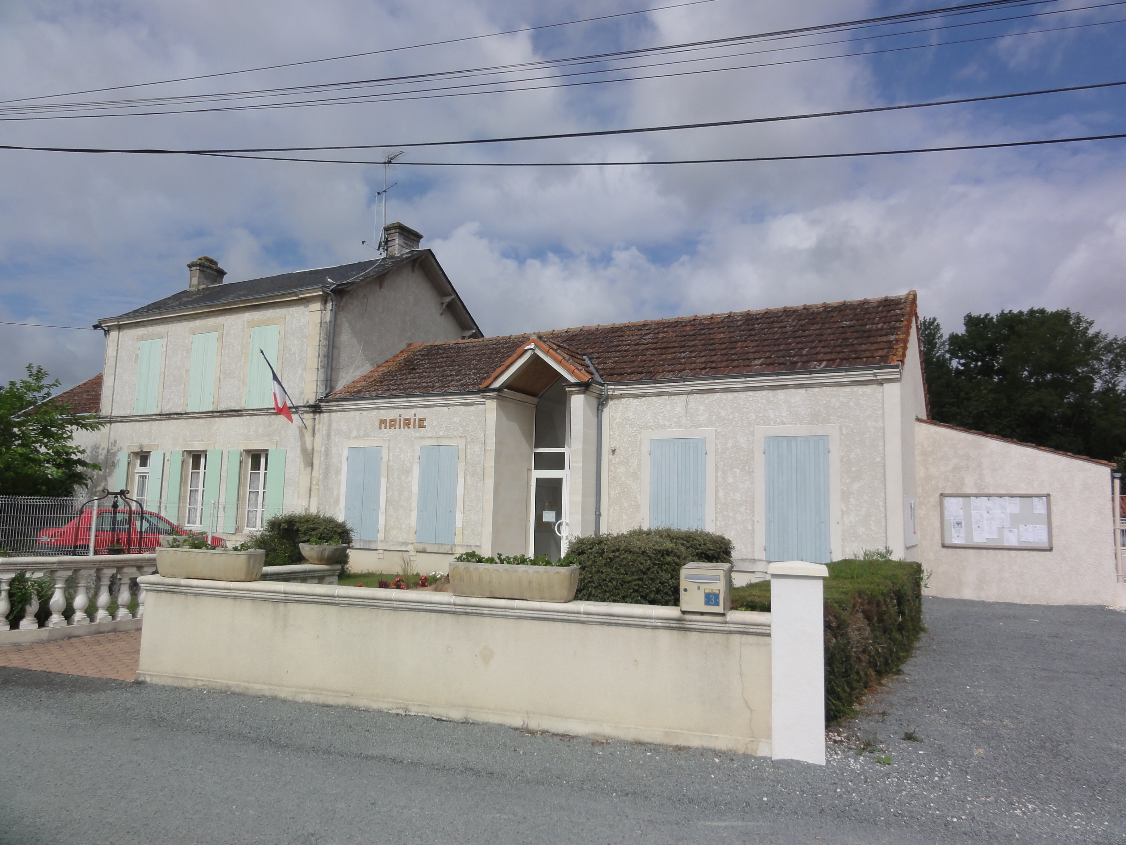 Poursay-Garnaud (Charente-Maritime) mairie